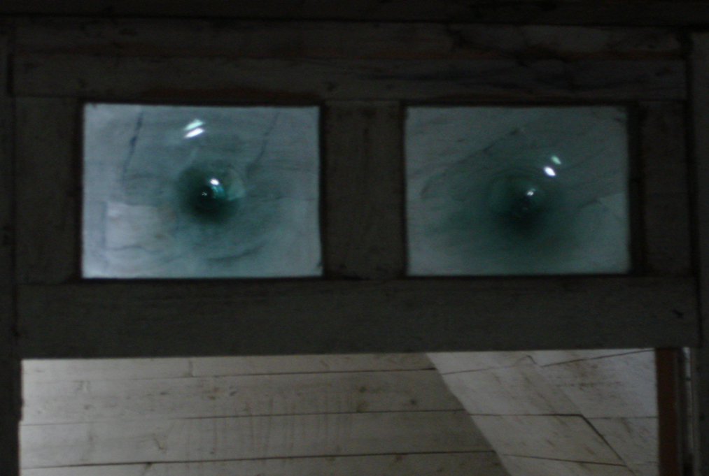 Bullion glass in attic window, Eidsvoll Manor, Norway.